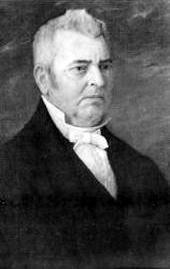 John Middleton Clayton